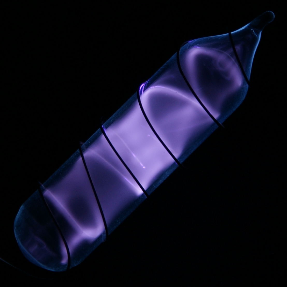 Vial of glowing ultrapure hydrogen, H2. Original size in cm: 1 x 5